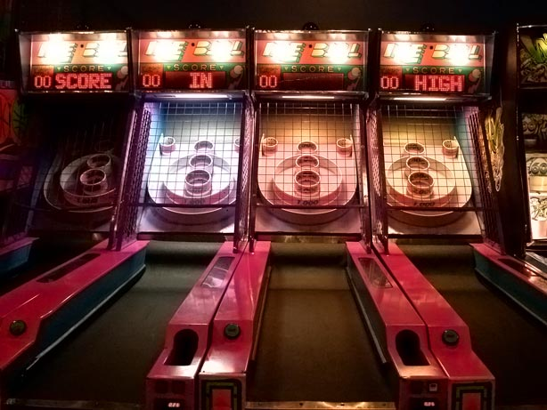 Skee ball, arcade redemption game, variant Ice ball